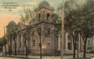 Temple Beth Or Jewish Synagogue in Montgomery, Alabama. This building was home of the congregation from 1902 until 1961.